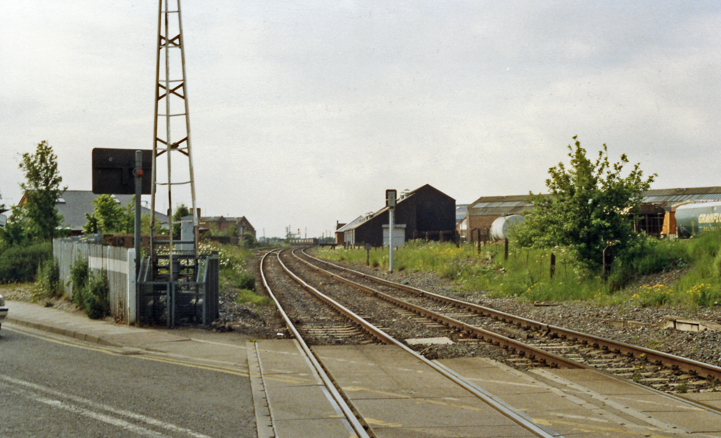 Site of Coalville Town station,1988. View NW, towards Ashby-de-la-Zouch and Burton-on-Trent: ex-Midland Leicester - Burton secondary main line. The station was closed from 7/9/64 when the passenger service on the route ceased, but the line has remained open for freight and it is planned to reopen a station here.